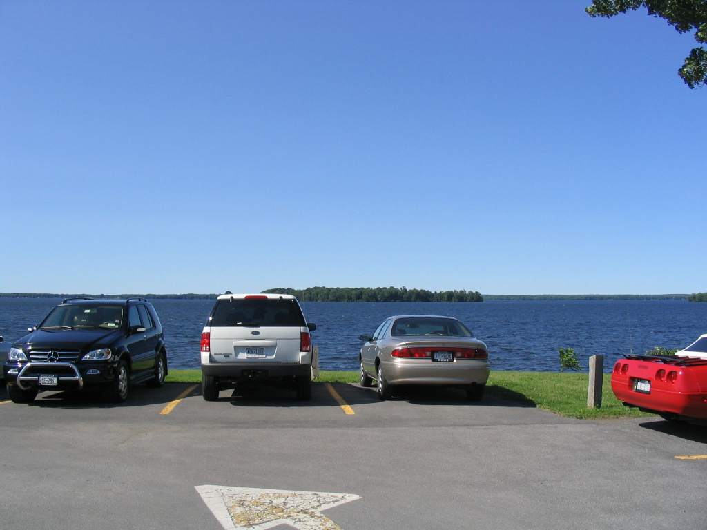 photo of Oneida Lake from the Yacht Club in Cicero, NY, taken by me on June 23, 2004